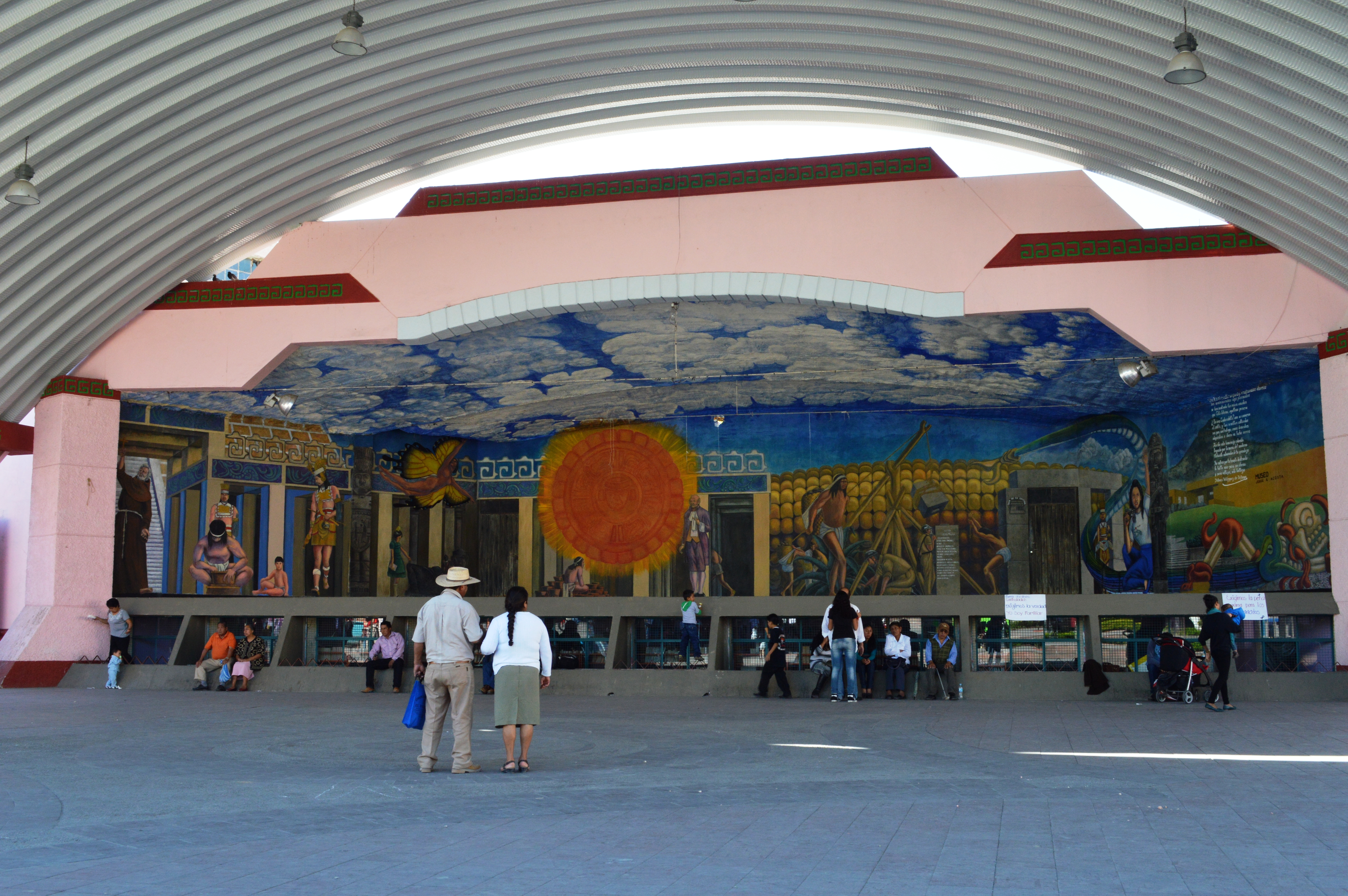 Open air theater with mural called “Tula Eterna” created by Juan Pablo Patiño Cornejo in Tula de Allende, Hidalgo, Mexico